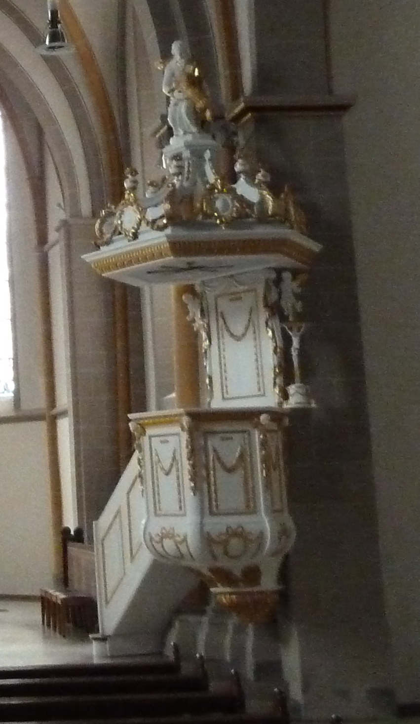 own file